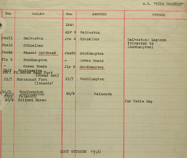 Chart depicting the record of the norwegian tanker M/T Nina Borthen.